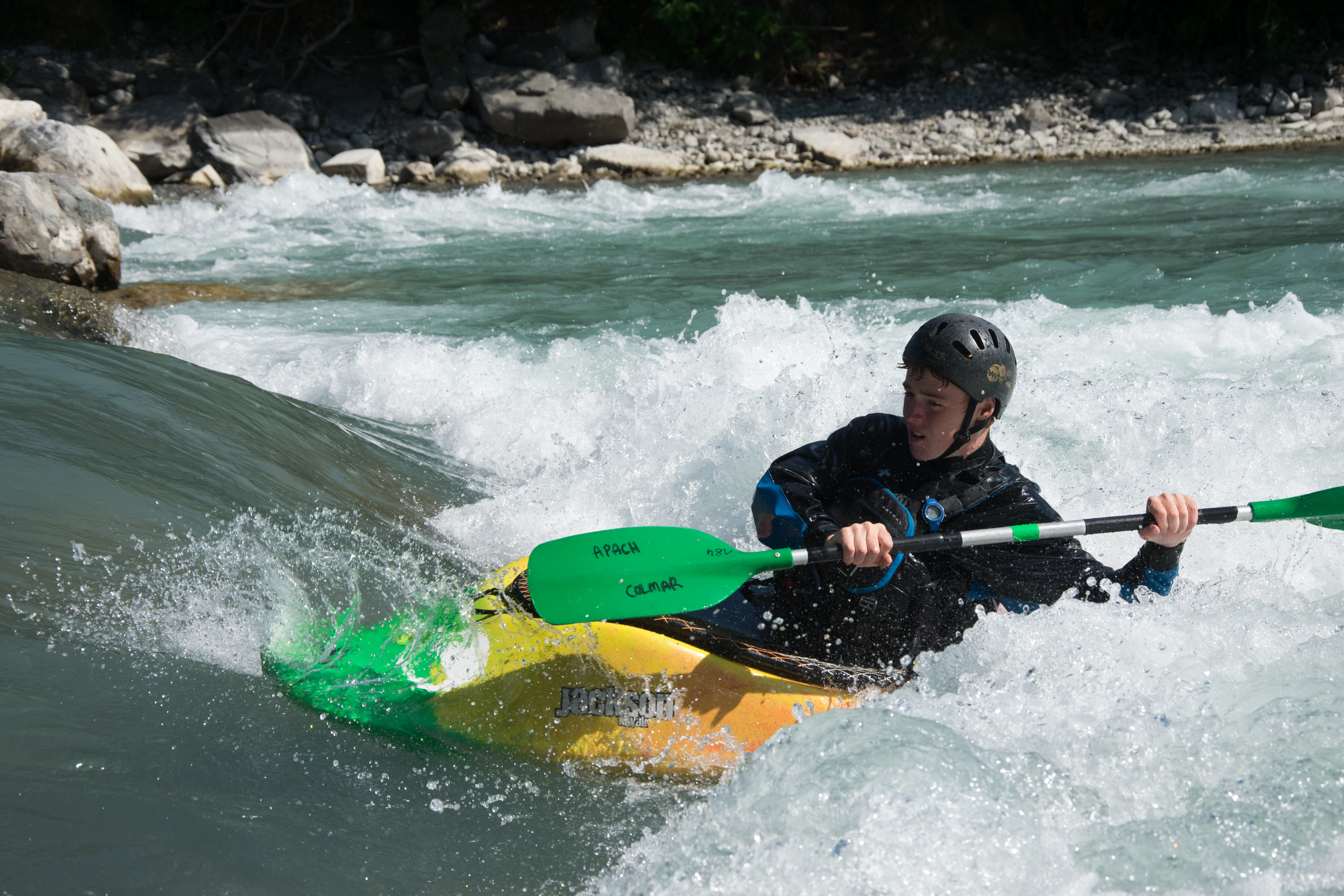 Kayaker playboating at the wave called la Clapière, at Embrun on the Durance river (France).